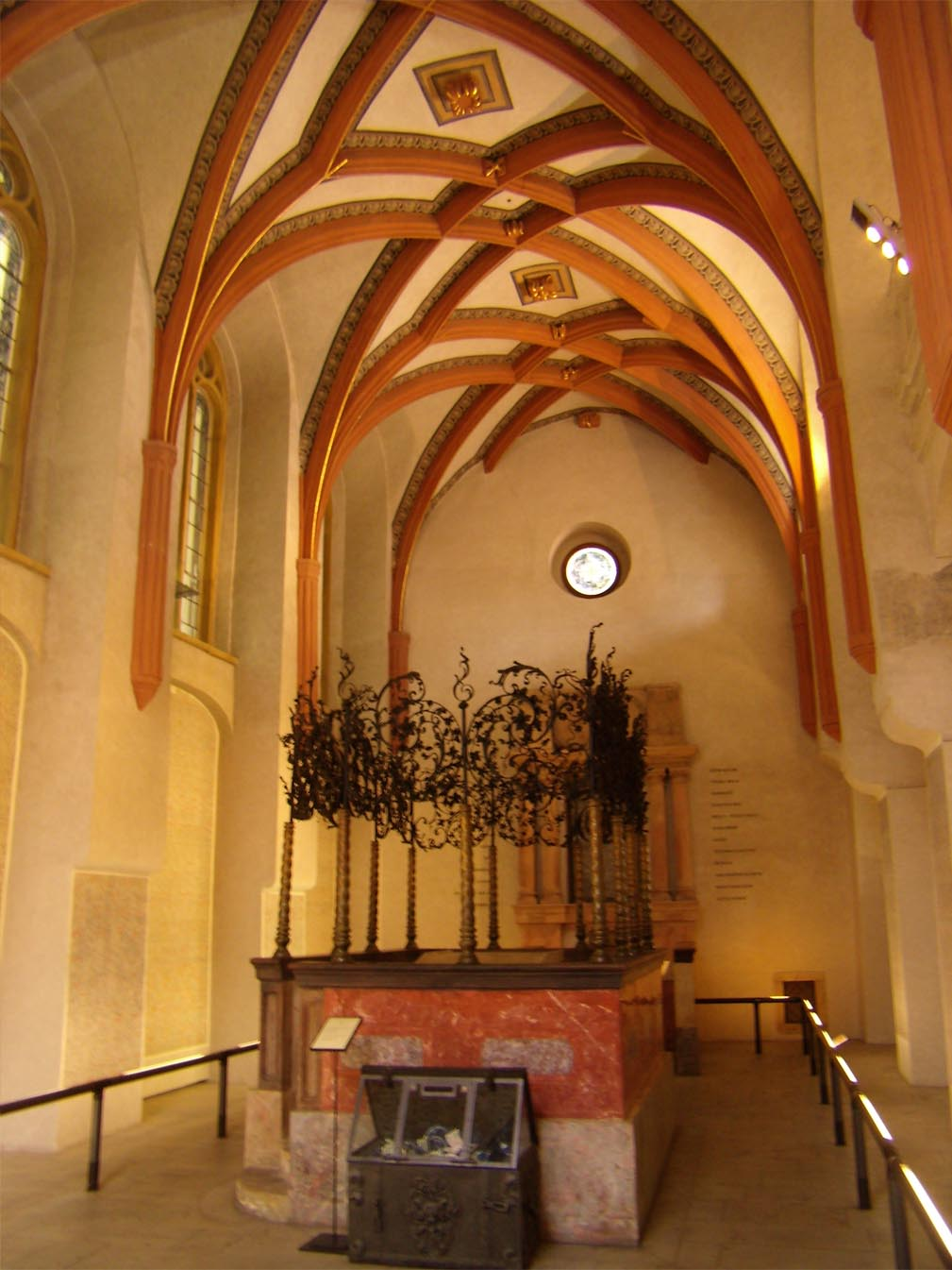 Pinkas synagogue in Prague